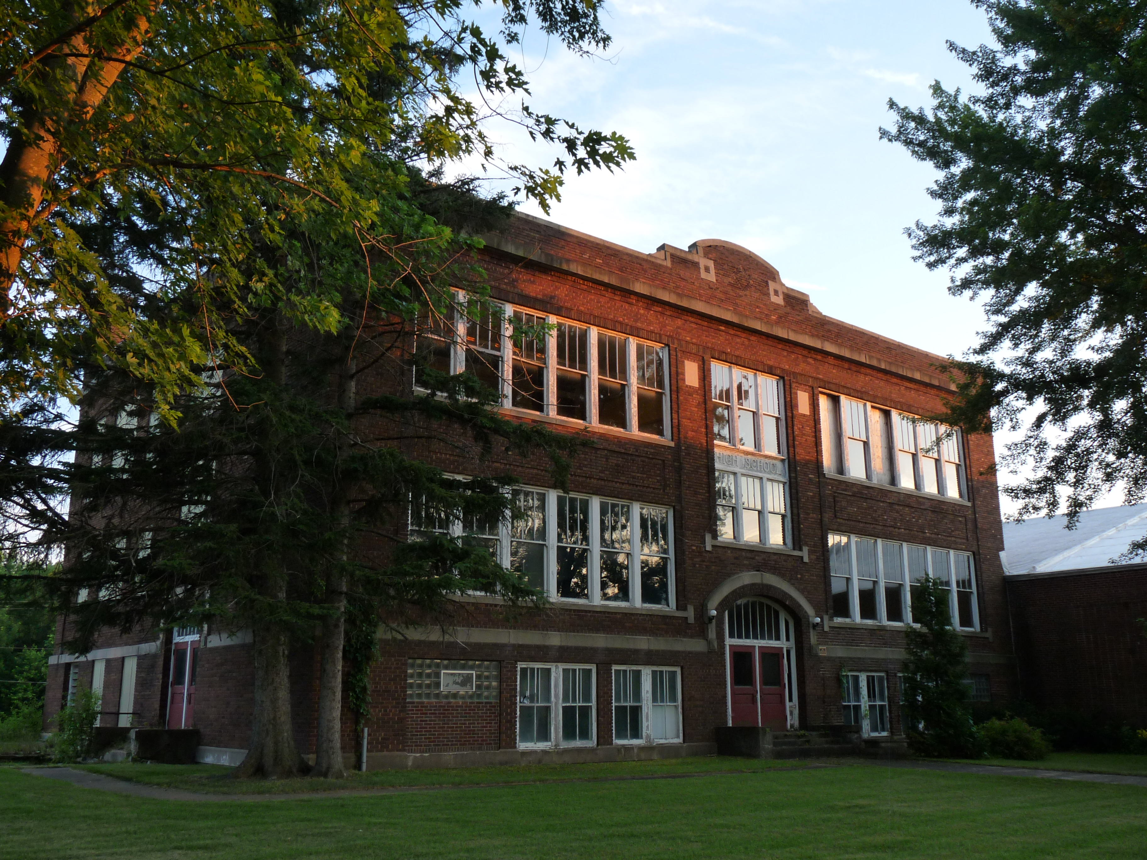 The old high school in Owen, Wisconsin opened in 1921, designed by William Alban. It was listed on the National Register of Historic places in 2004.